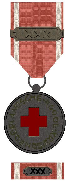 Medal for Faithful Service of the Dutch Red Cross 1926